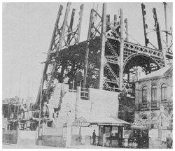 Blackpool Tower under construction in 1893